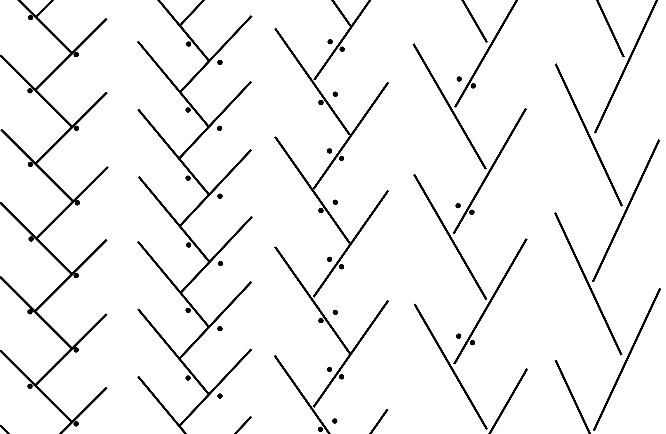 Track pattern of skating in cross country skiing. From left to right: single poling skate, V2, V1, open field skate (V2a), no pole skate